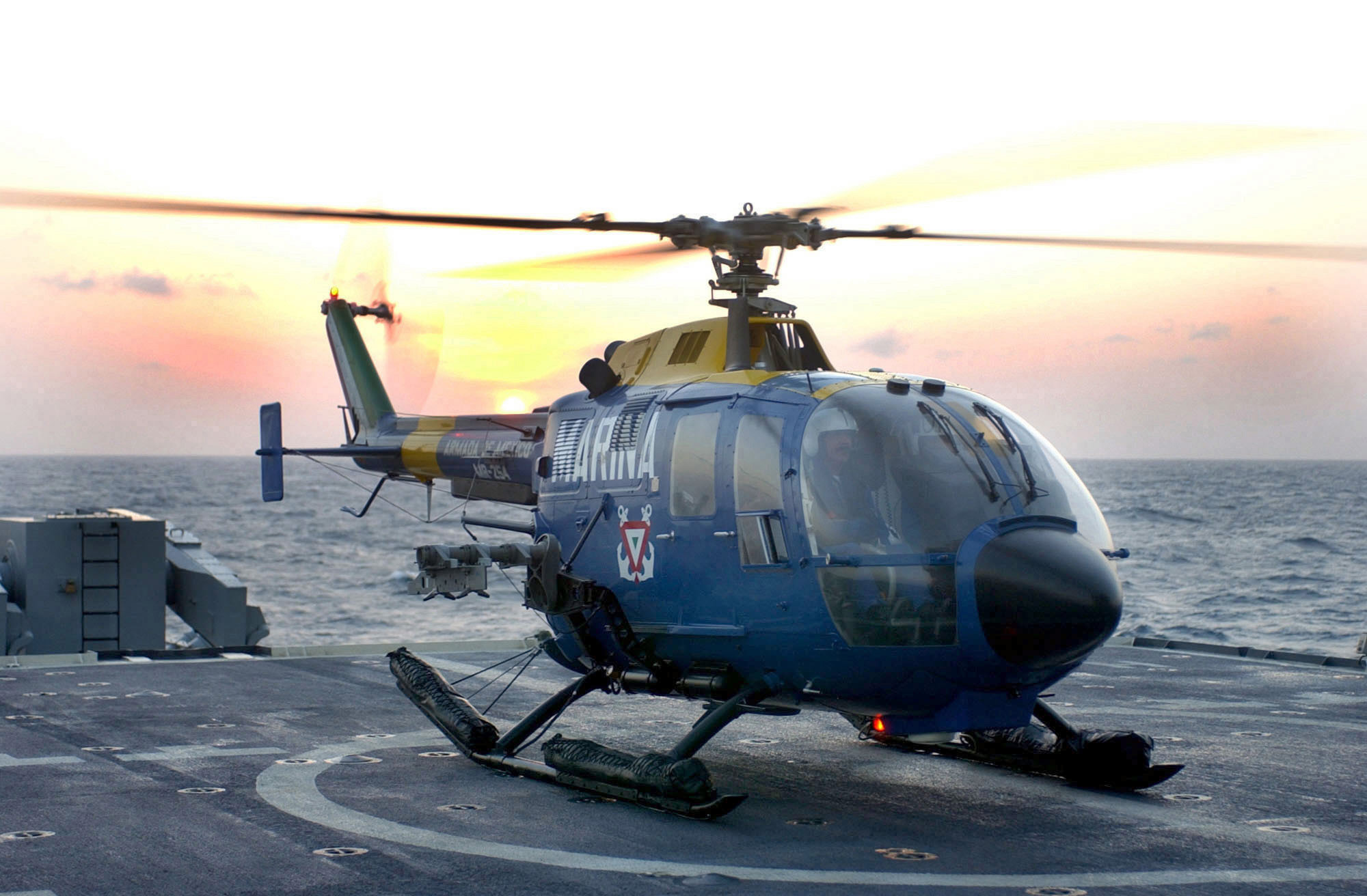 A Mexican Navy MBB BO-105CB helicopter lands on deck of the US Navy (USN) Guided Missile Cruiser USS YORKTOWN (CG 48) during the 43rd annual UNITAS exercise. UNITAS is the largest multi-national naval exercise conducted with naval forces from the Caribbean Sea, South and Central America and the USN. The exercises focus on building multinational coalition while promoting hemispheric defense and mutual cooperation.